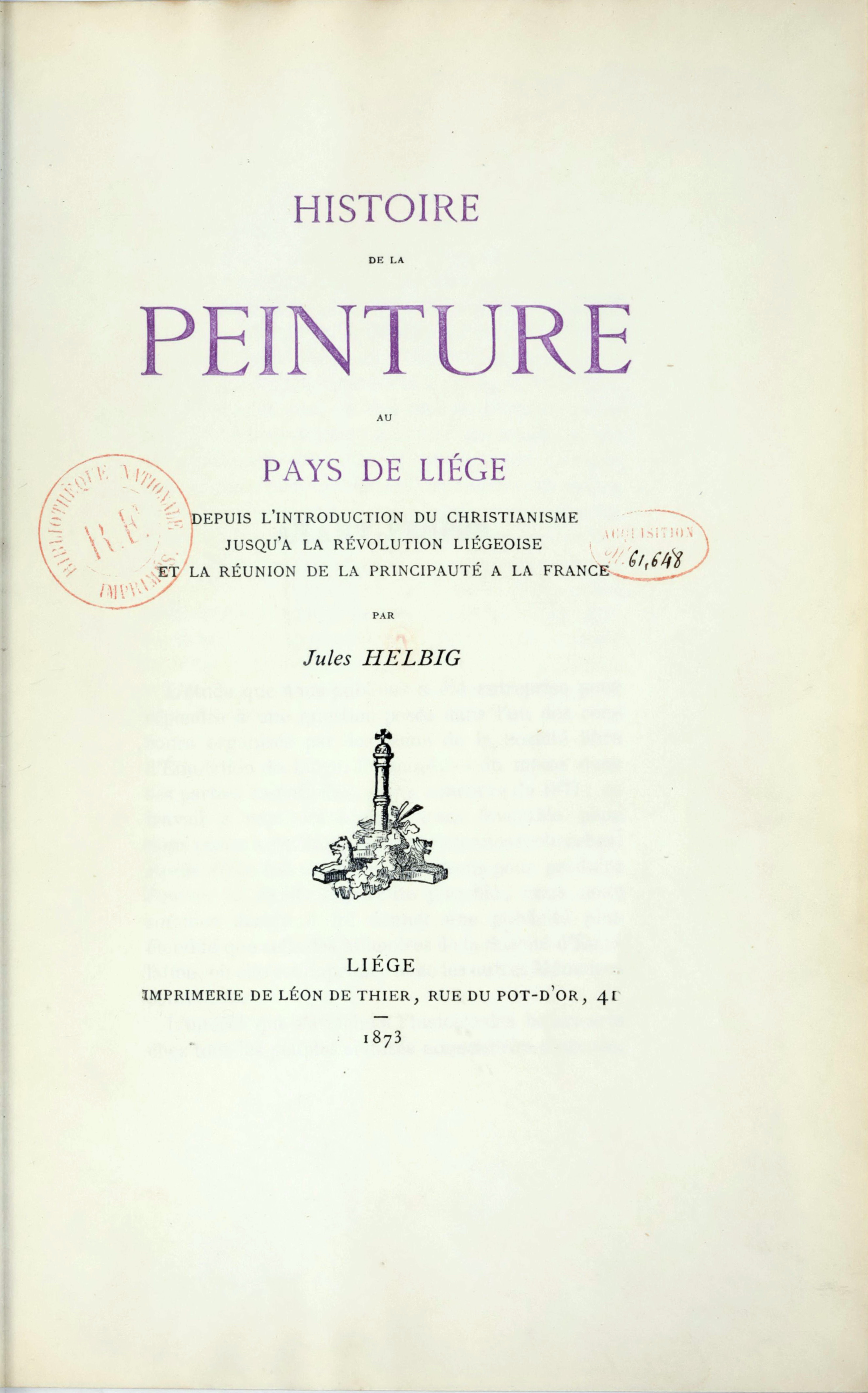 Title page of Histoire de la peinture au pays de Liège by Jules Helbig (1873)